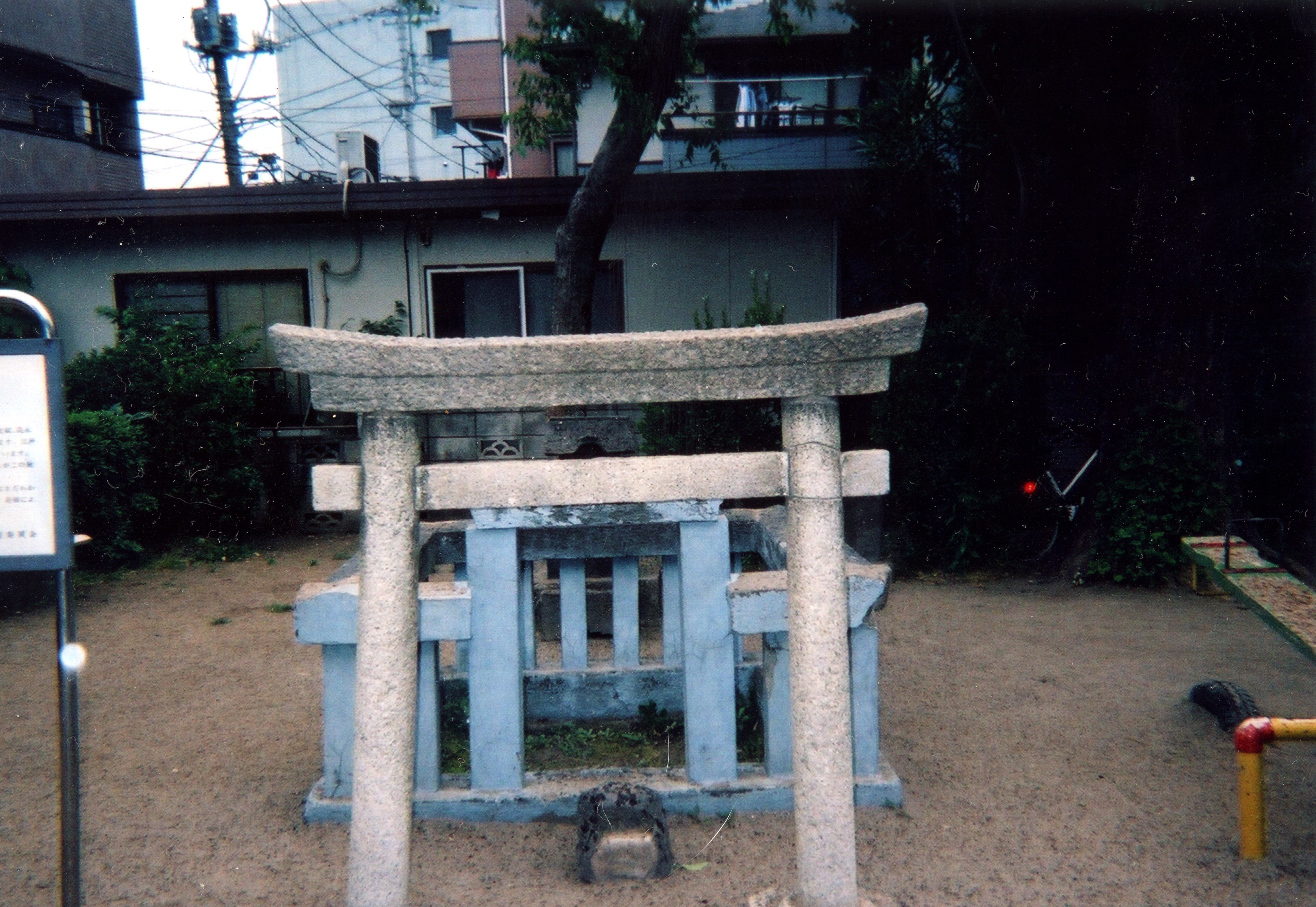 Tateishi-sama in Katsushika Ward, Tokyo, Japan